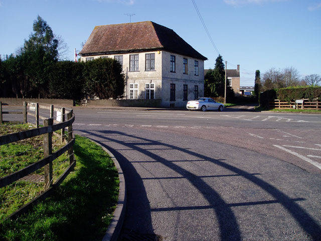 House on the A38 at Moreton Valence Built of Cotswold limestone like most of the old buildings round here. The road down which the car is going is a dead end to Moreton Valence church.